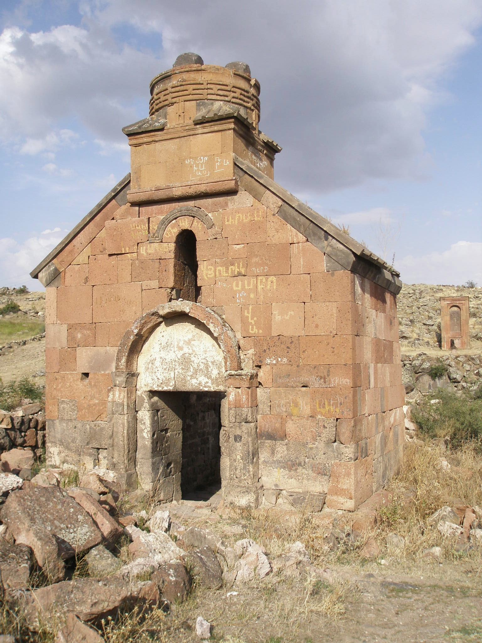 Artavazik Church front facade